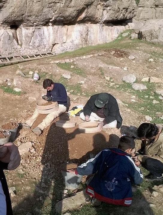 Bawa Yawan rock shelter, sieving with the traditional method at a Paleolithic site in Iranian Zagros, April 2017